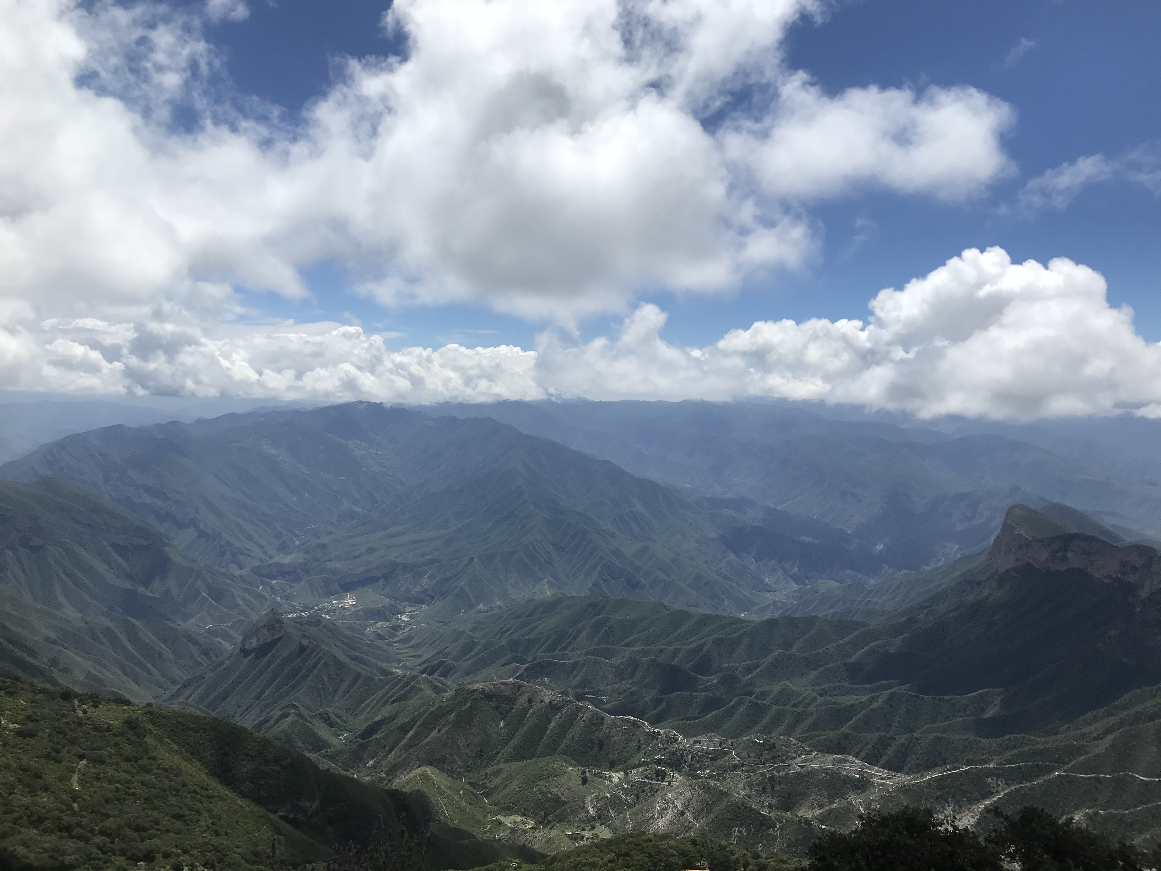 Panoramic view of the viewpoint located in "Cuatro Palos" located in Pinal de Amoles, Querétaro, México